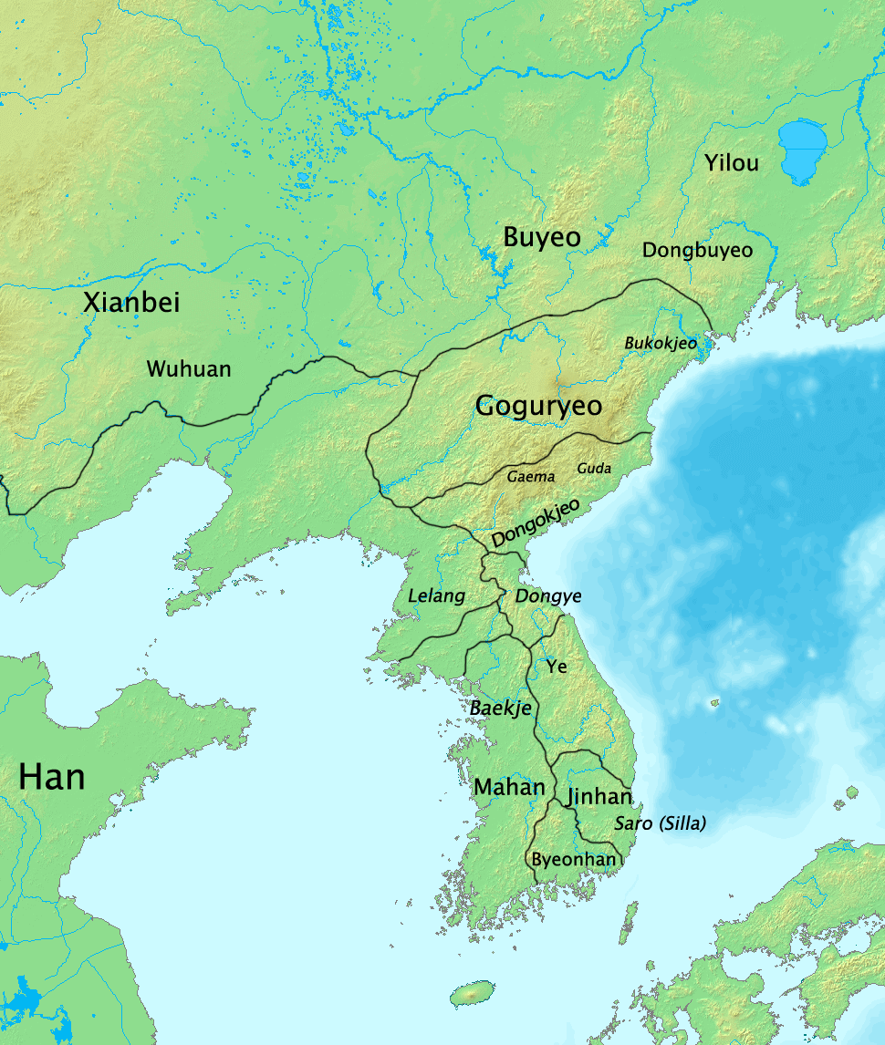 Proto-Three Kingdoms, c. 001 AD.